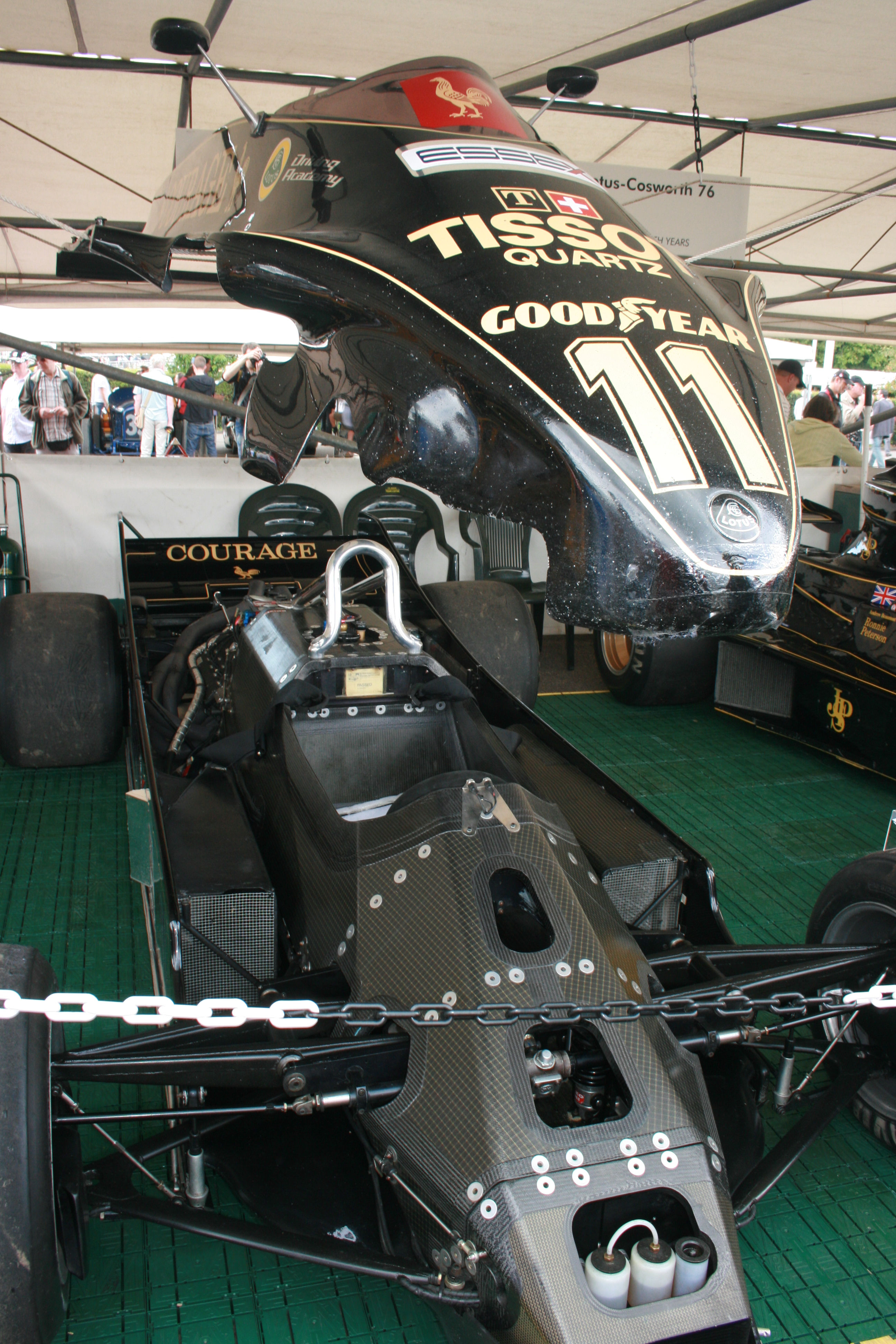 Lotus-Cosworth 88B